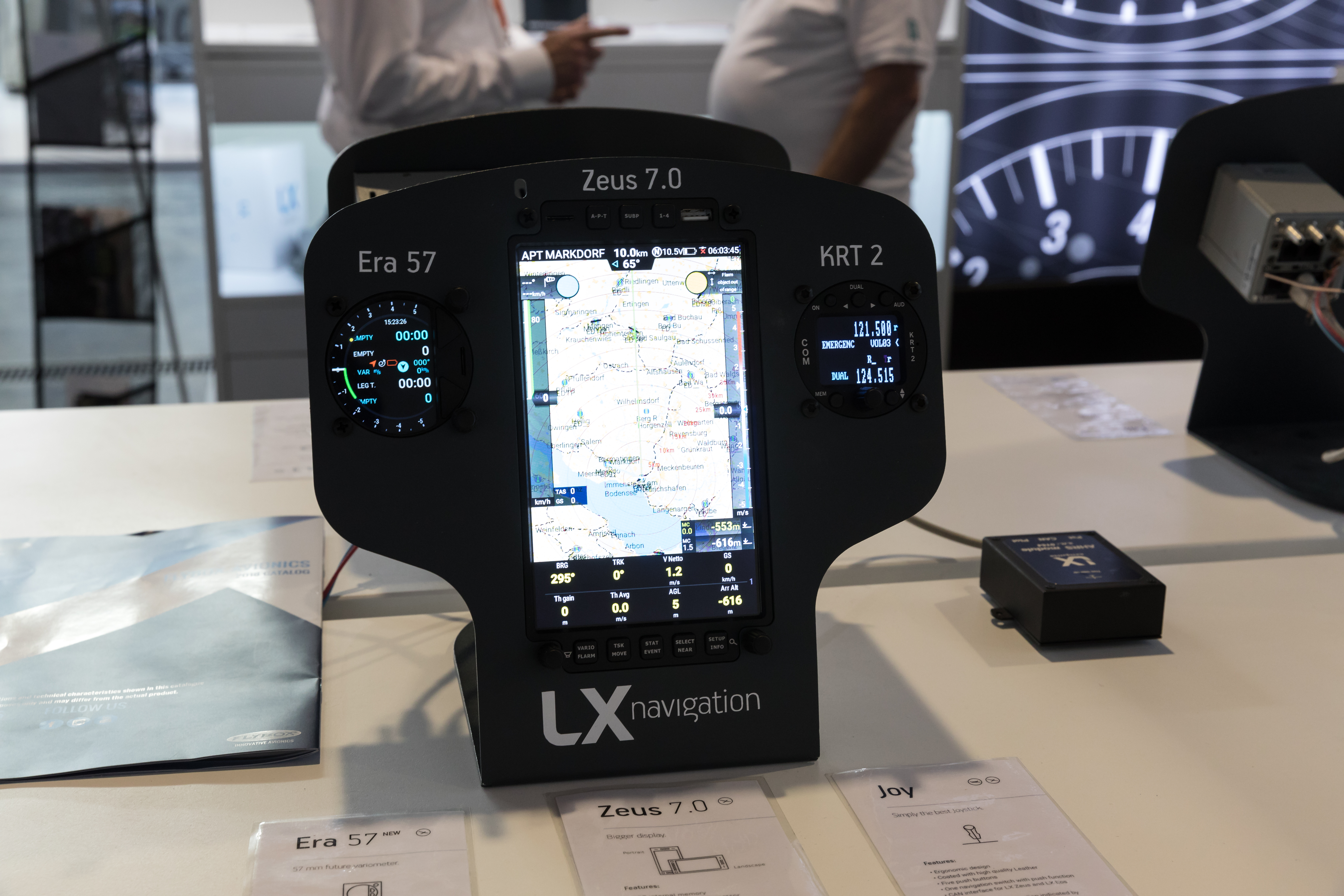 AERO Friedrichshafen 2018